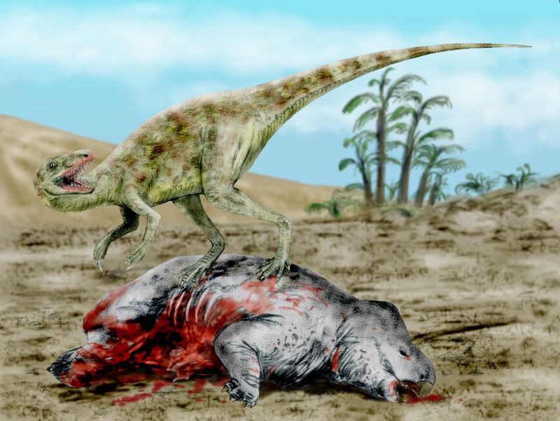 Staurikosaurus pricei, a primitive dinosaur from the Late Triassic of Brazil, feeding on a dicynodont. Digital.